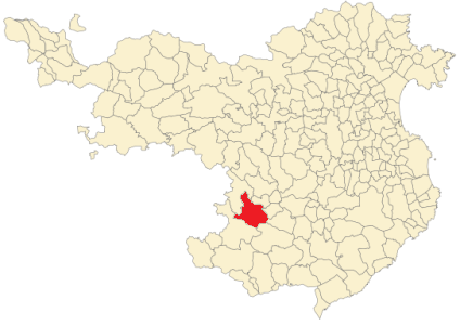 Osor